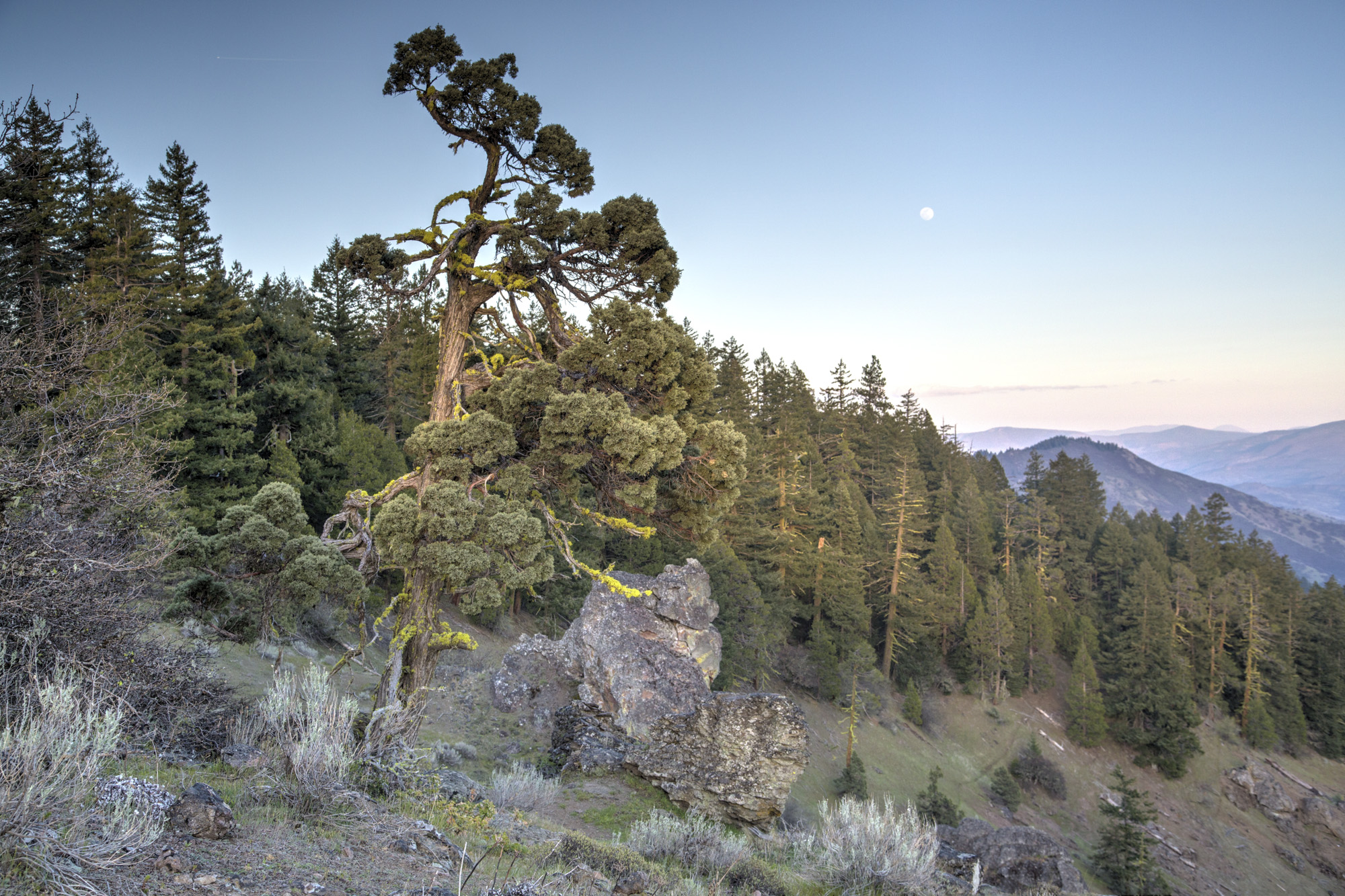 The stunning views from the Cascade-Siskiyou National Monument, including the sun, moon, Mount Shasta and Pilot Rock, were captured May 3, 2015, from the Pacific Crest Trail, or PCT. As BLM photographer Bob Wick said: “This area is a botanist’s dream where the Cascade, Great Basin and Coast Range-Klamath ecosystems come together. You can turn a corner and go from walking through a dense mossy red fir forest to sagebrush and mountain mahogany in a few feet.” Check out more photos from the BLM national monument in southern Oregon: And access info for the area